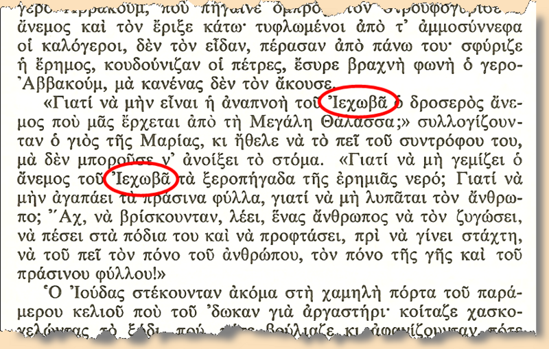 Excerpt from the book The Last Temptation of Christ (Ο Τελευταίος Πειρασμός, Greek version, p. 142) of Nikos Kazantzakis, showing the use of God's name Jehovah (Ιεχωβά).